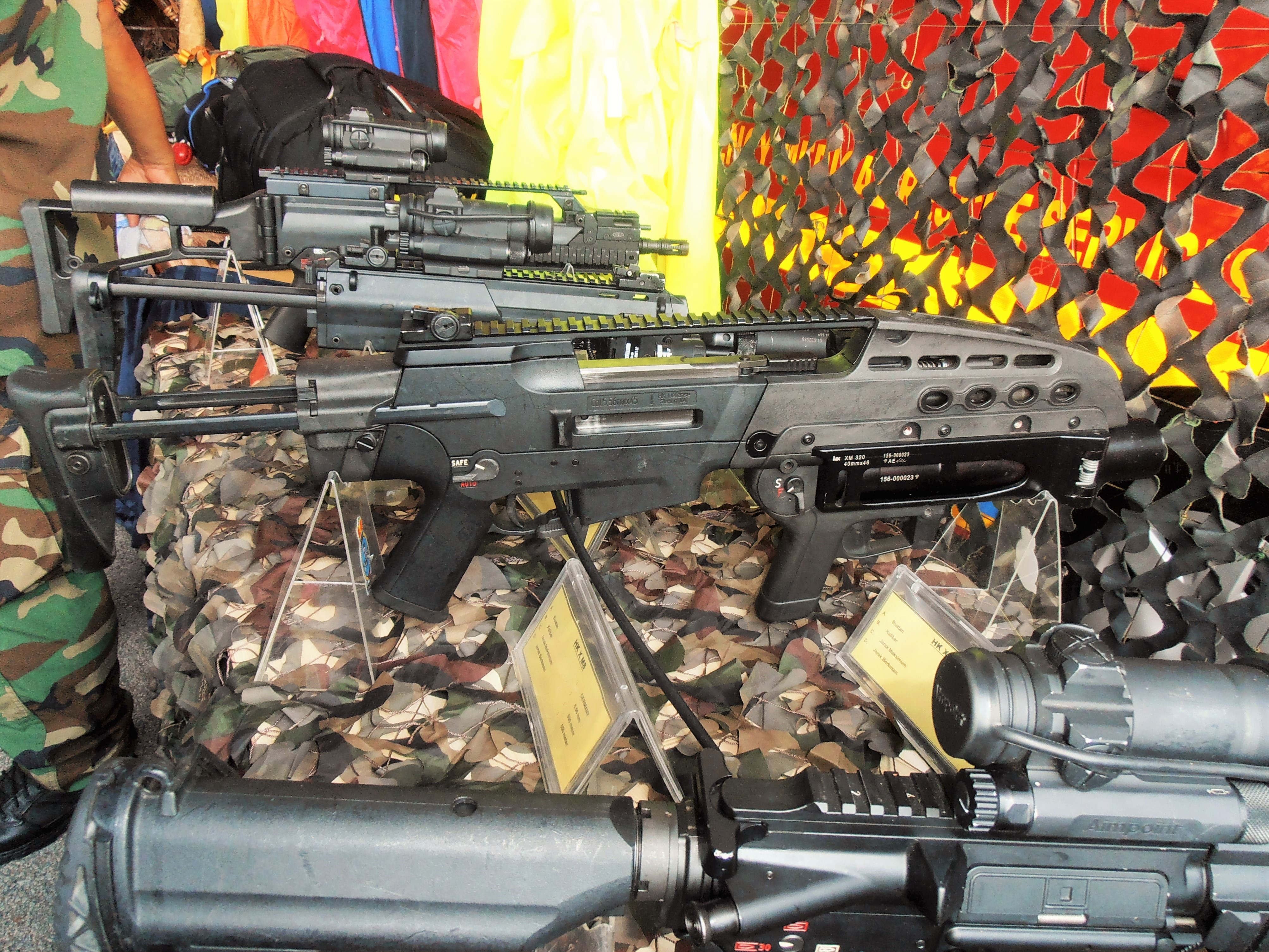 LUMUT (May 01, 2016) A German Heckler & Koch HK XM8 Carbine with retractable buttstock (also known as XM8 Malaysian), attached with HK AG36 Underbarrel Grenade Launcher on display at a PASKAL exhibition booth during 82nd Anniversaries of Royal Malaysian Navy, Lumut, Perak, Malaysia.